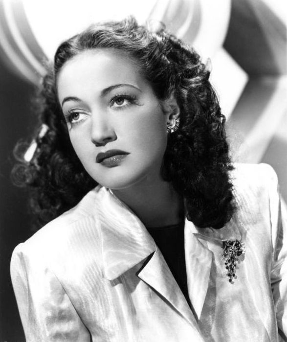 Publicity photo of Dorothy Lamour